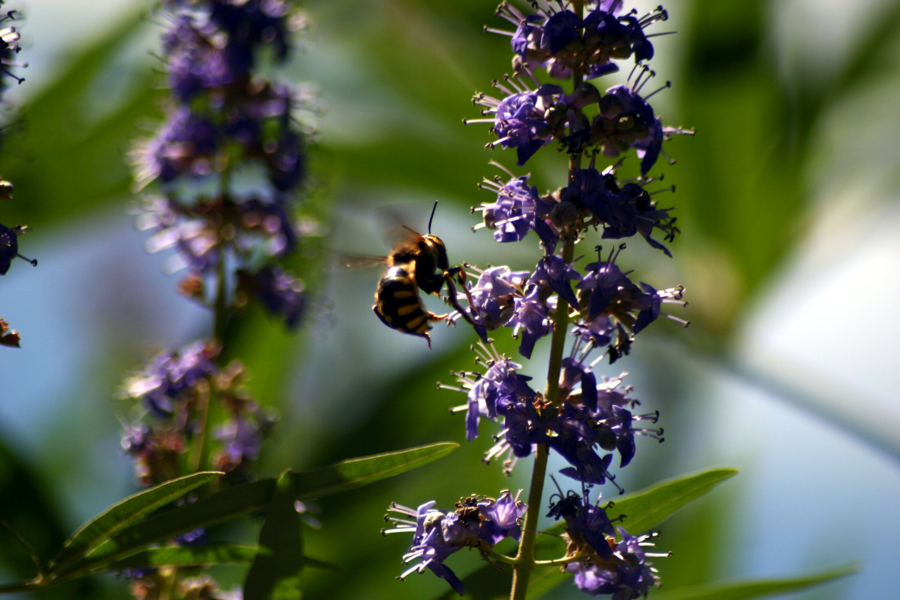 An exceptional picture of a bee (Anthidium? sp.) flying into a flower to collect nectar (Taken in Rome)